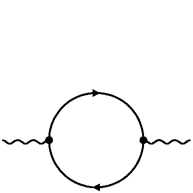 Two-photon physics: A photon fluctuates into a fermin-antifermon pair.